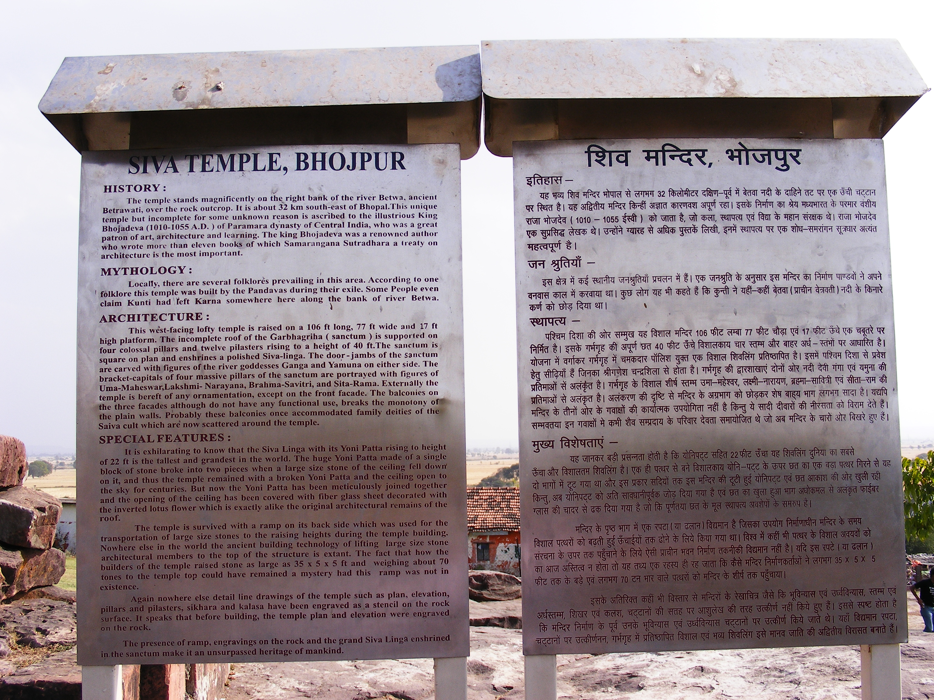 Picture showing the history of Shiva Temple, Bhojpur, Madhya Pradesh, India in Hindi & English.